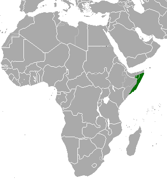 Range map of the Speke´s gazelle (Gazella spekei) according to Jonathan Kingdon: The Kingdon Field Guide to African Mammals. A&C Black Publishers, London 1997 [2007], ISBN 978-0-7136-6513-0 (476 Seiten). Heckel, J.-O., Amir, O.G., Kaariye, X.Y. & Wilhelmi, F. 2008. Gazella spekei. In: IUCN 2011. IUCN Red List of Threatened Species. Version 2011.1. . Downloaded on 13 July 2011. Source=Base map derived from File:BlankMap-World.png.